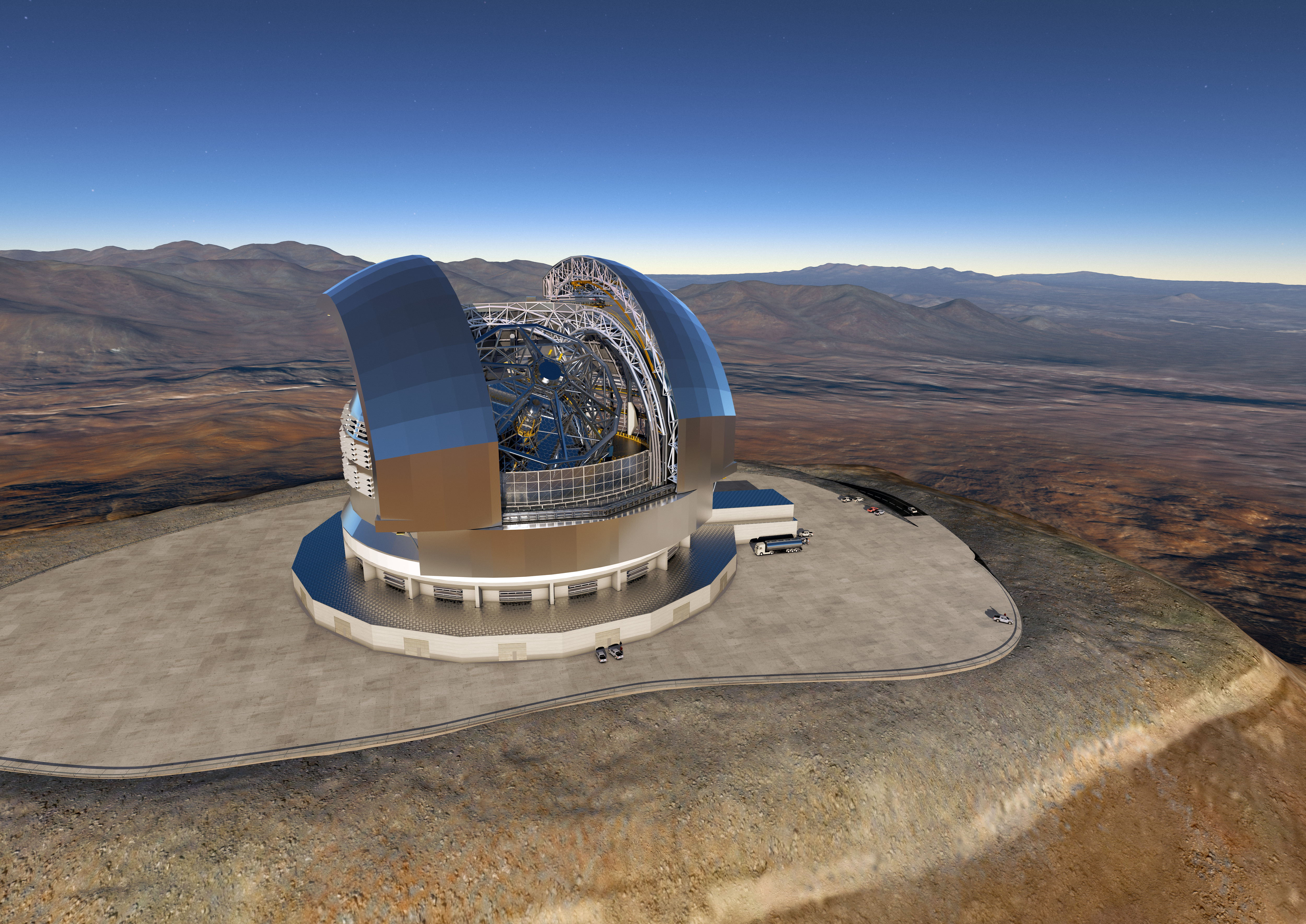 At a ceremony in Garching bei München, Germany on 25 May 2016, ESO signed the contract with the ACe Consortium, consisting of Astaldi, Cimolai and the nominated sub-contractor EIE Group for the dome and telescope structure of the European Extremely Large Telescope (E-ELT). This is the largest contract ever awarded by ESO and the largest ever contract in ground-based astronomy. At this occasion the construction design of the E-ELT was unveiled. This artist’s rendering of the E-ELT is based on the detailed construction design for the telescope..